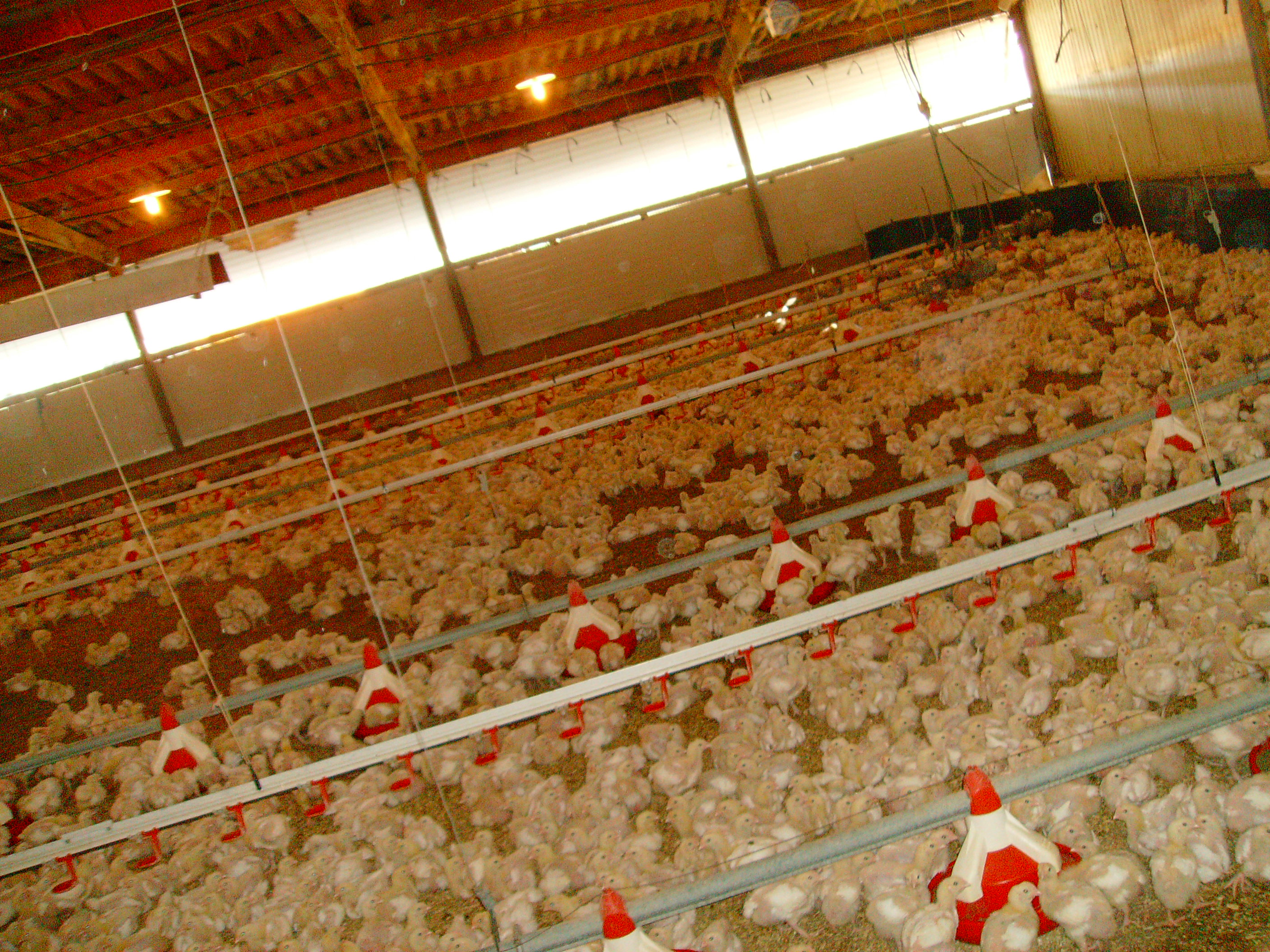 Taken in the location indicated on Google Maps